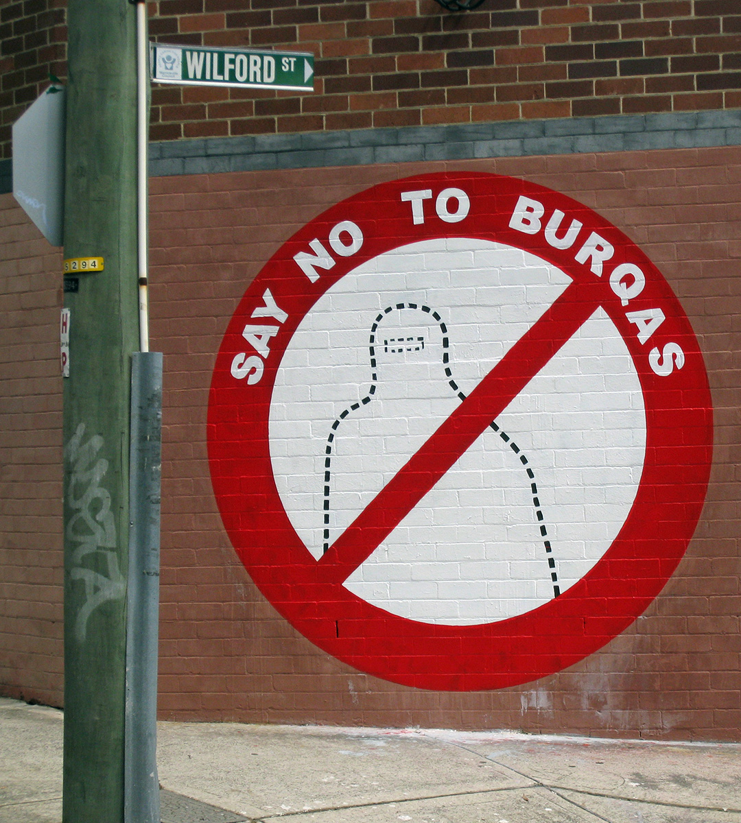 Poster in Newtown, Sydney, Australia Dress in public, Islamic law, Shariah